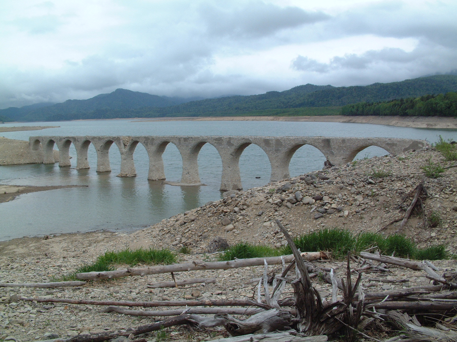 This concrete arch bridge (Taushubets bridge) is a railway bridge used in the Japanese National Railways Shihoro line until August, 1955. Do the in existence of this bridge in the Hokkaido Kamishihoro-cho in Japan. Contributor (Chatama) took this photograph on June 11, 2005.